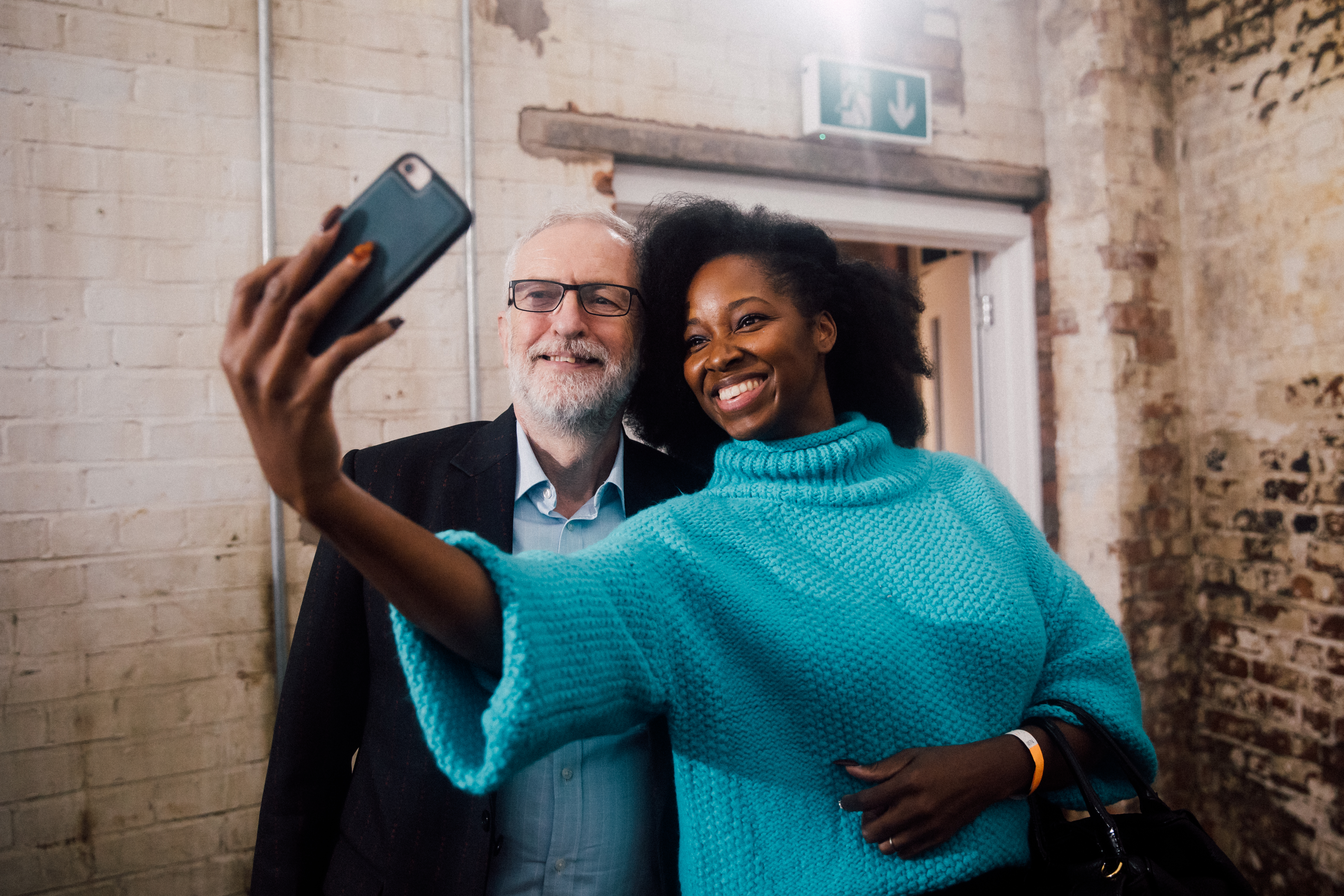 I was in Birmingham to spread Labour’s message of real change. (5th December, 2019) In an election offering a once-in-a-generation chance, we can end privatisation and rescue our NHS. We can get Brexit sorted and bring our country together. We can tackle the climate emergency that threatens us all. And we can rewrite the rules of our economy to work for the many, not the few.